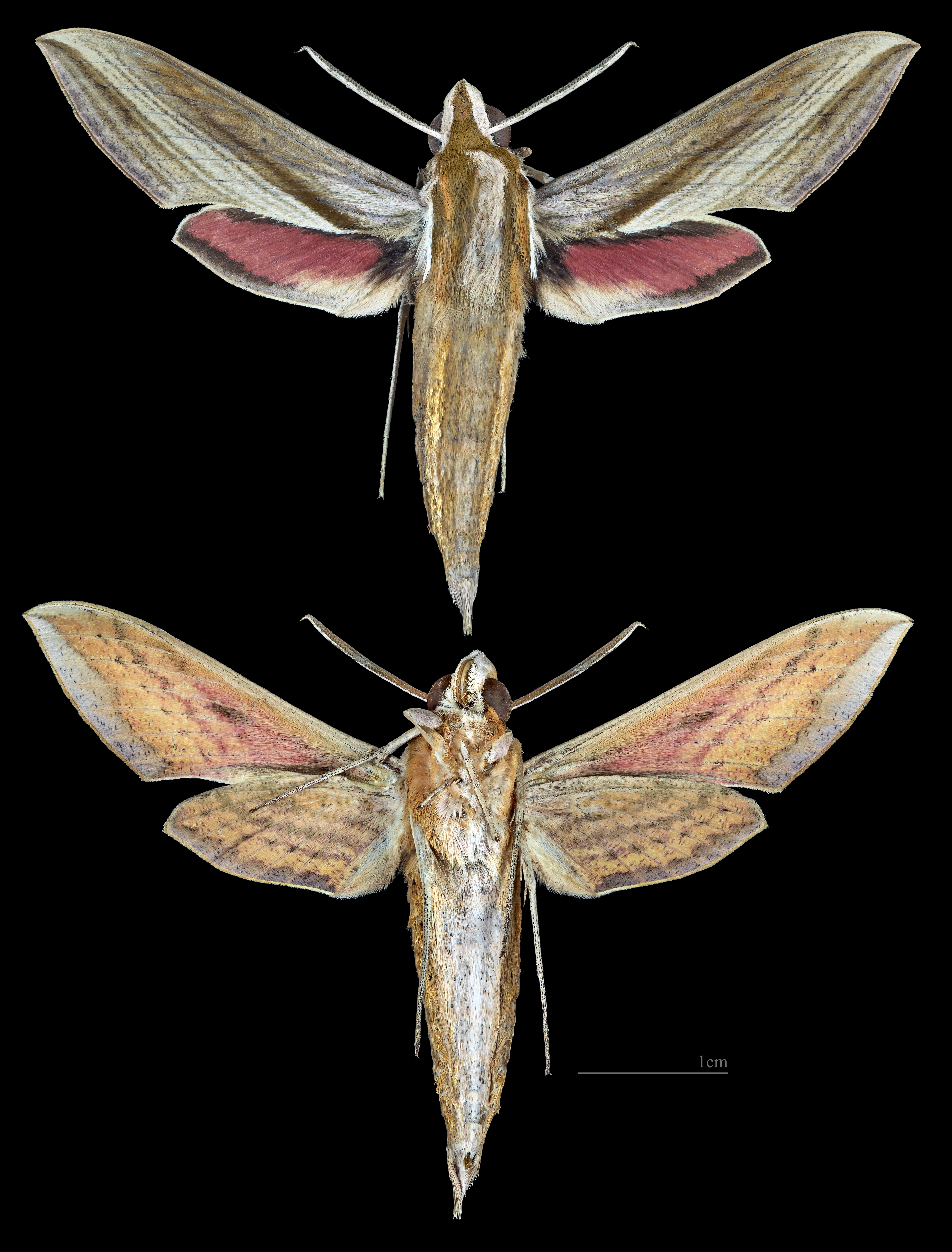 Hippotion echeclus - Two views of same specimen Collection of the Mathematician Laurent Schwartz